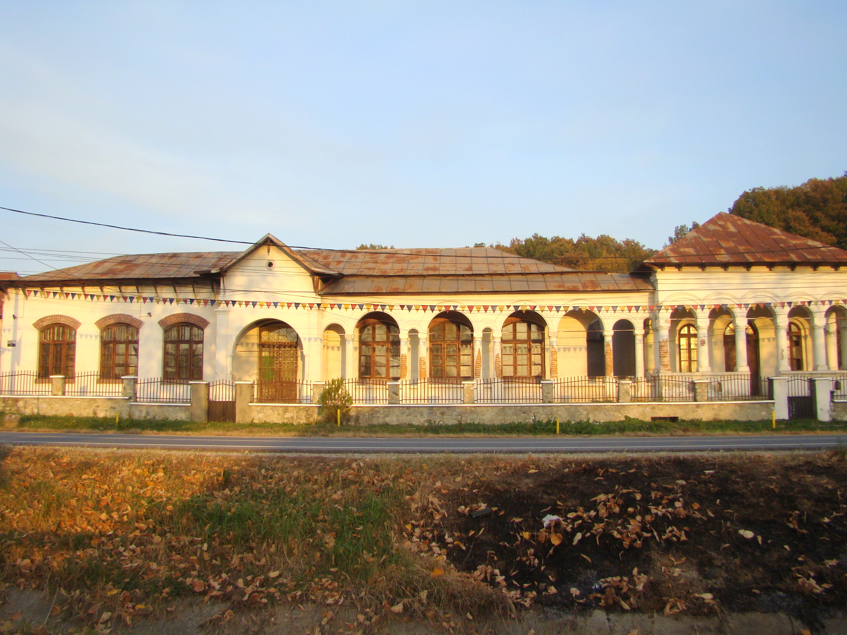 School in Peșteana-Jiu, Gorj county, Romania